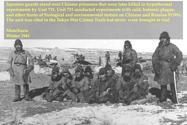 Japanese guards stand over Chinese prosoners that were later killed in hypothermal experiments by Unit 731.